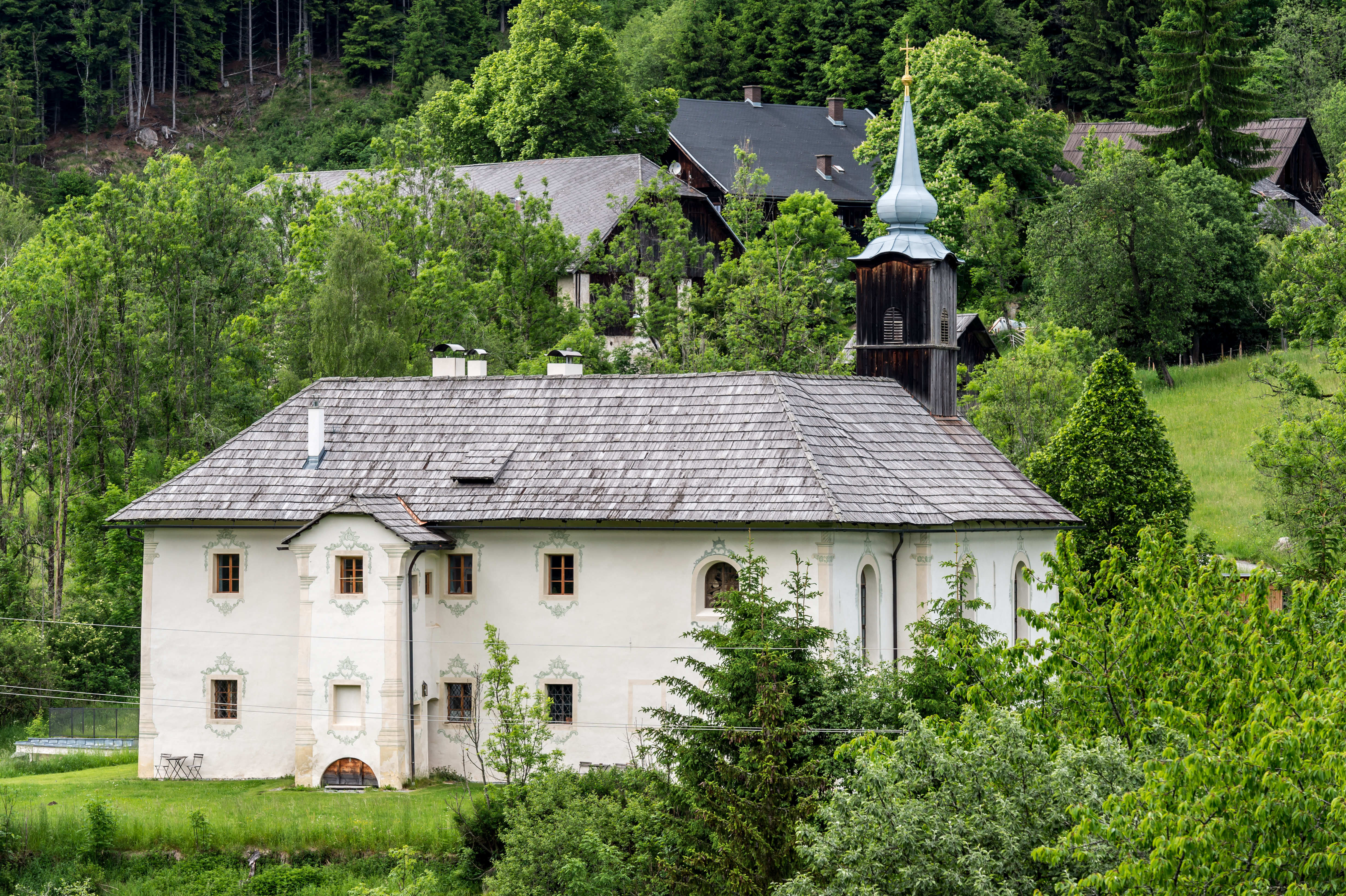 Parish church Holy Cross and the former hospice (Kloesterle) in Innerteuchen, municipality Arriach, district Villach Land, Carinthia, Austria, EU